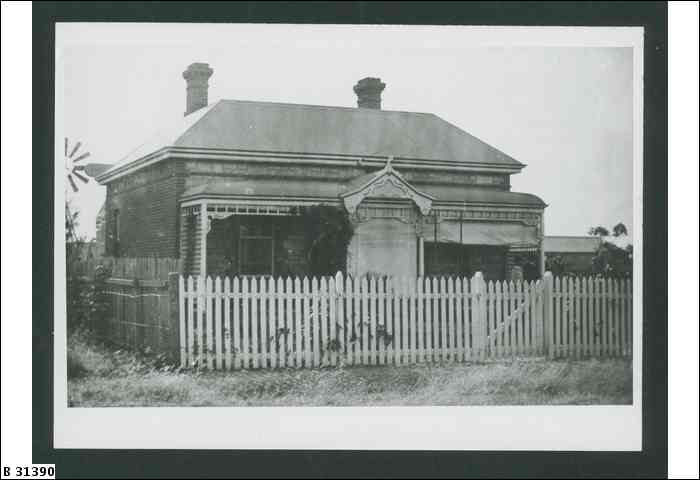 Residence on Green Road, Captain Louis Searles, Touson Searles Alex Ross and Mrs Florence Ross